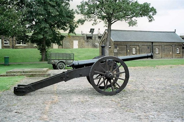 Cannon At Tilbury Fort